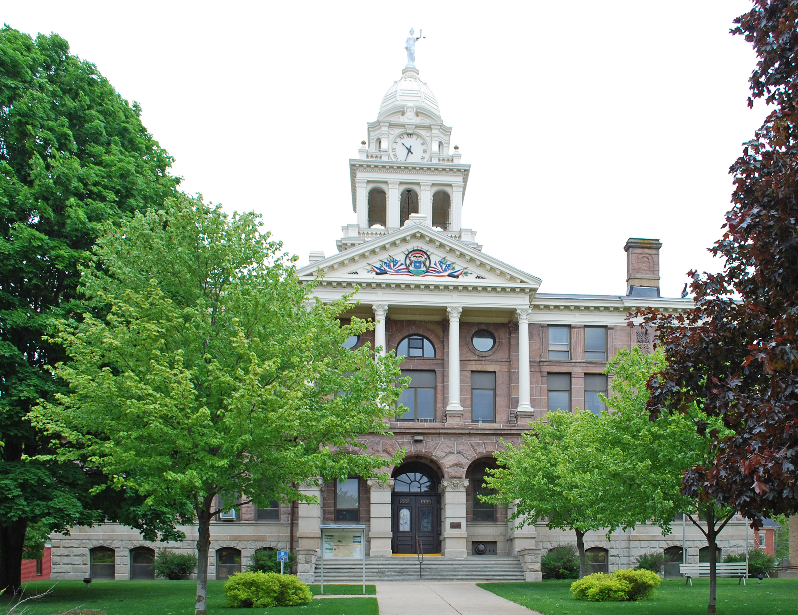 Ionia County Couthouse in Ionia MI